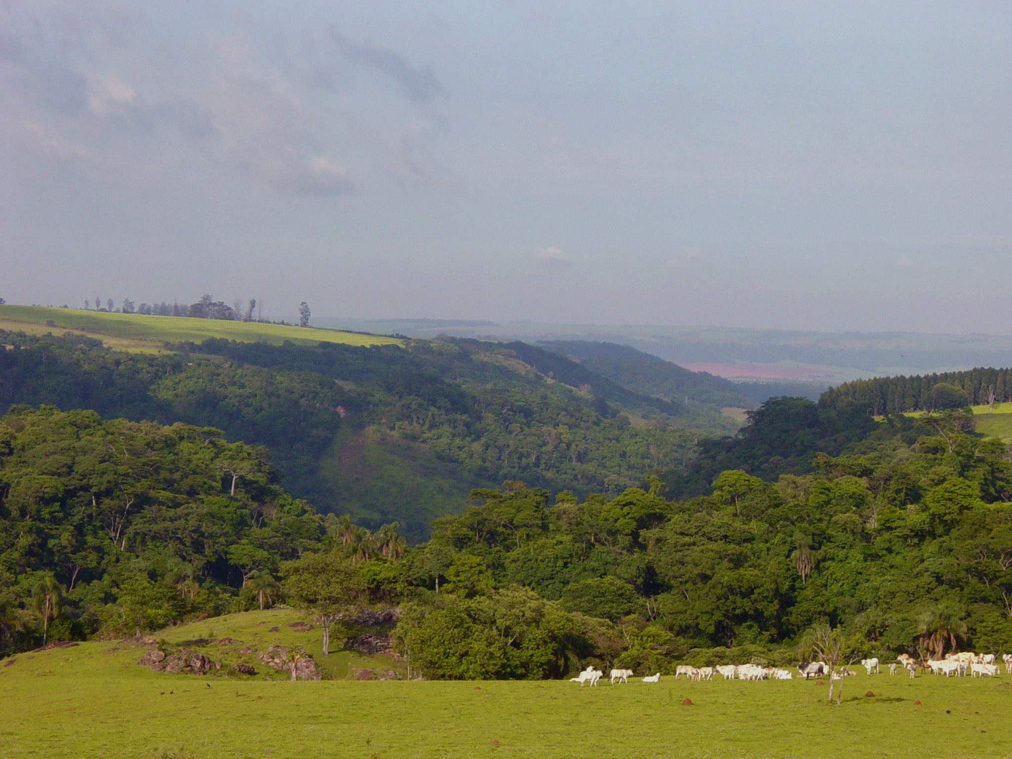 Section from the original Atlantic Forest still standing in a valley close to Itirapina, Sao Paulo State, Brazil